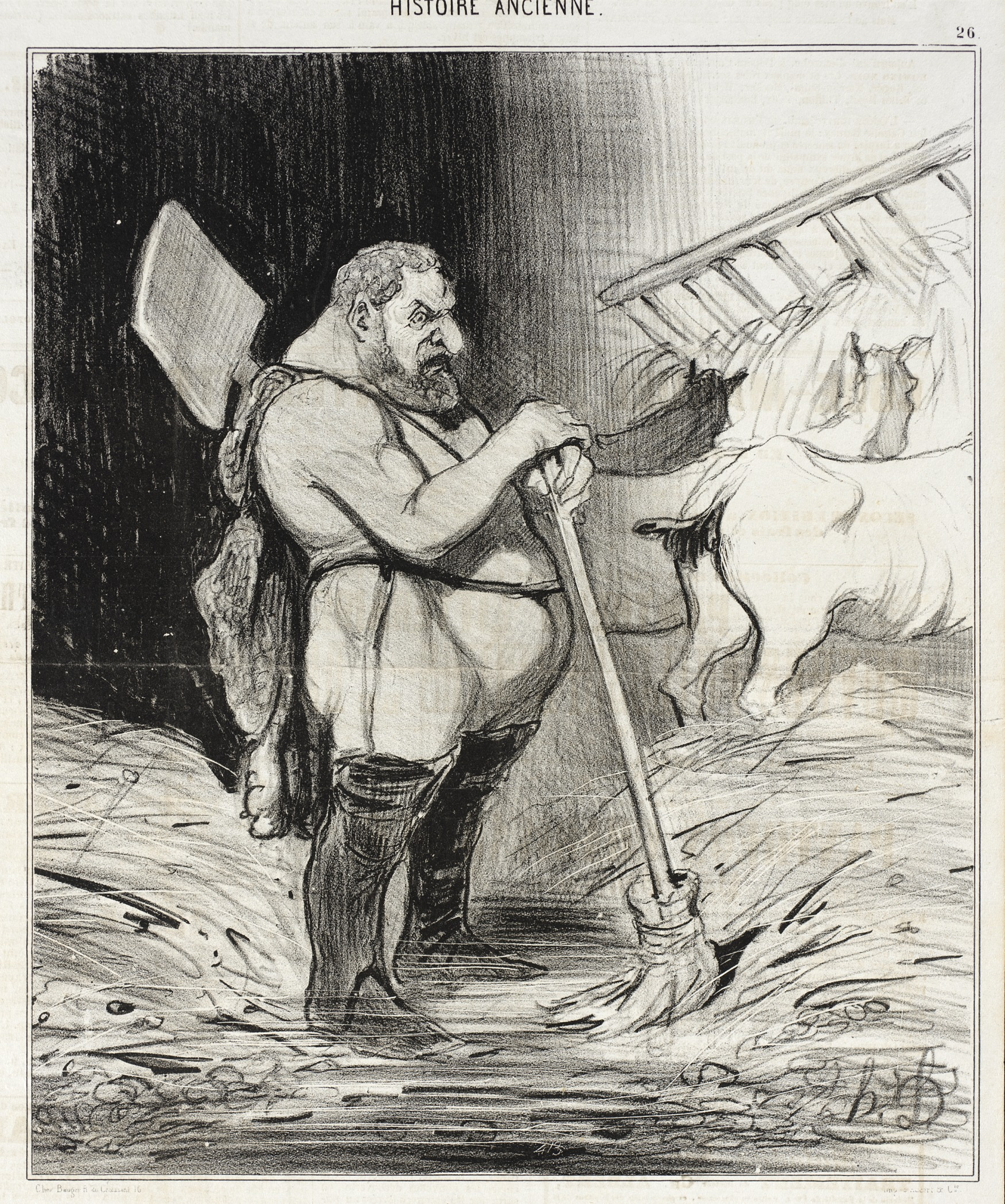 France, 1842 Series: L'Histoire ancienne Periodical: Le Charivari, 25 September 1842 Prints; lithographs Lithograph Gift of Mr. and Mrs. Stanley Talpis (54.71.83) Prints and Drawings